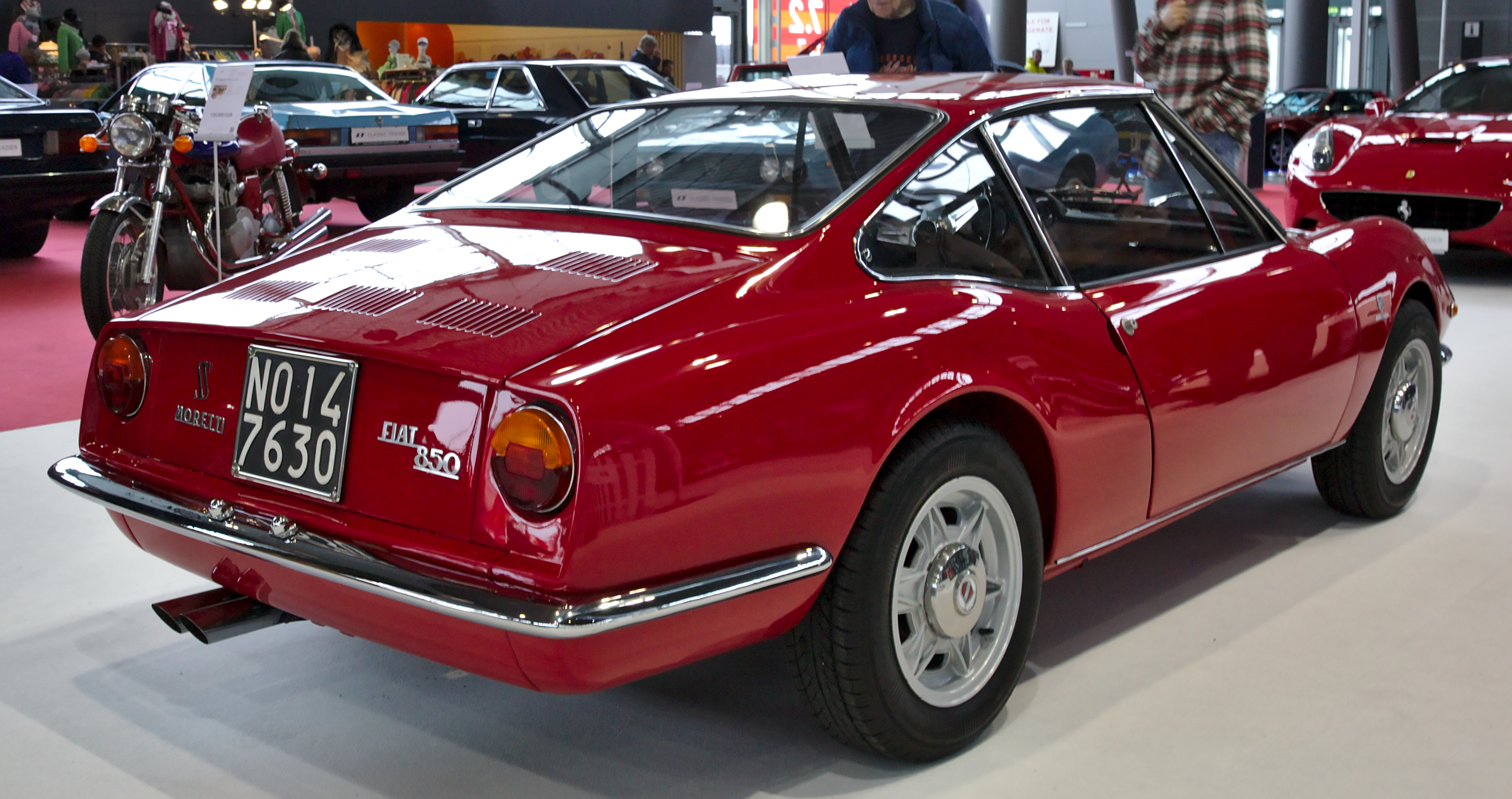 Fiat 850 Moretti Sportiva at Retro Classics 2018